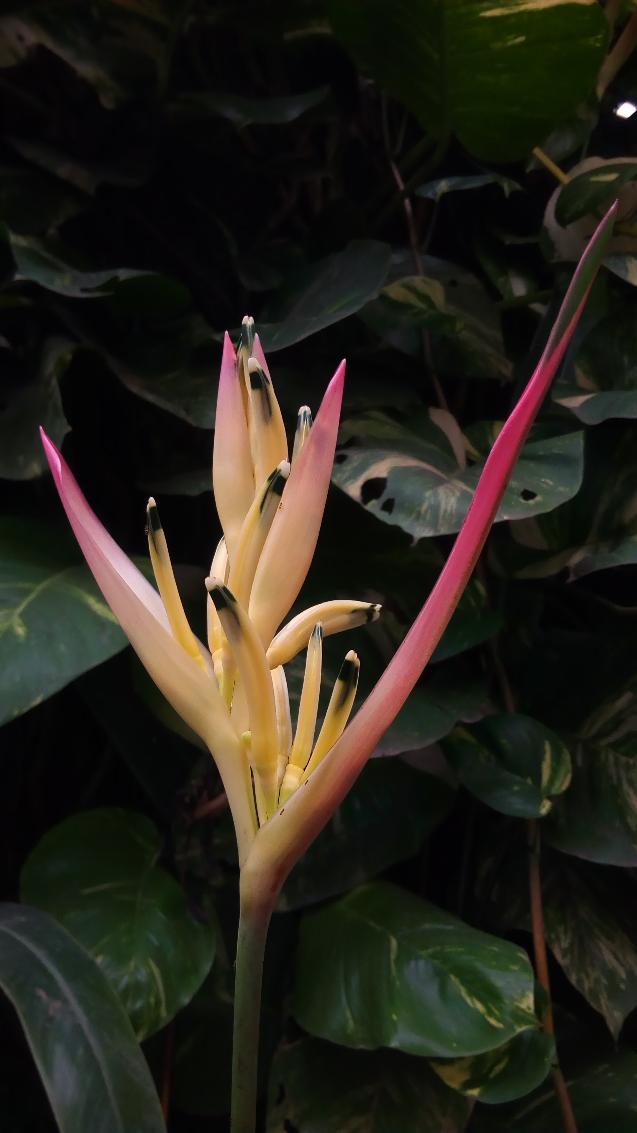 Beauty of Heliconia with a leafy background